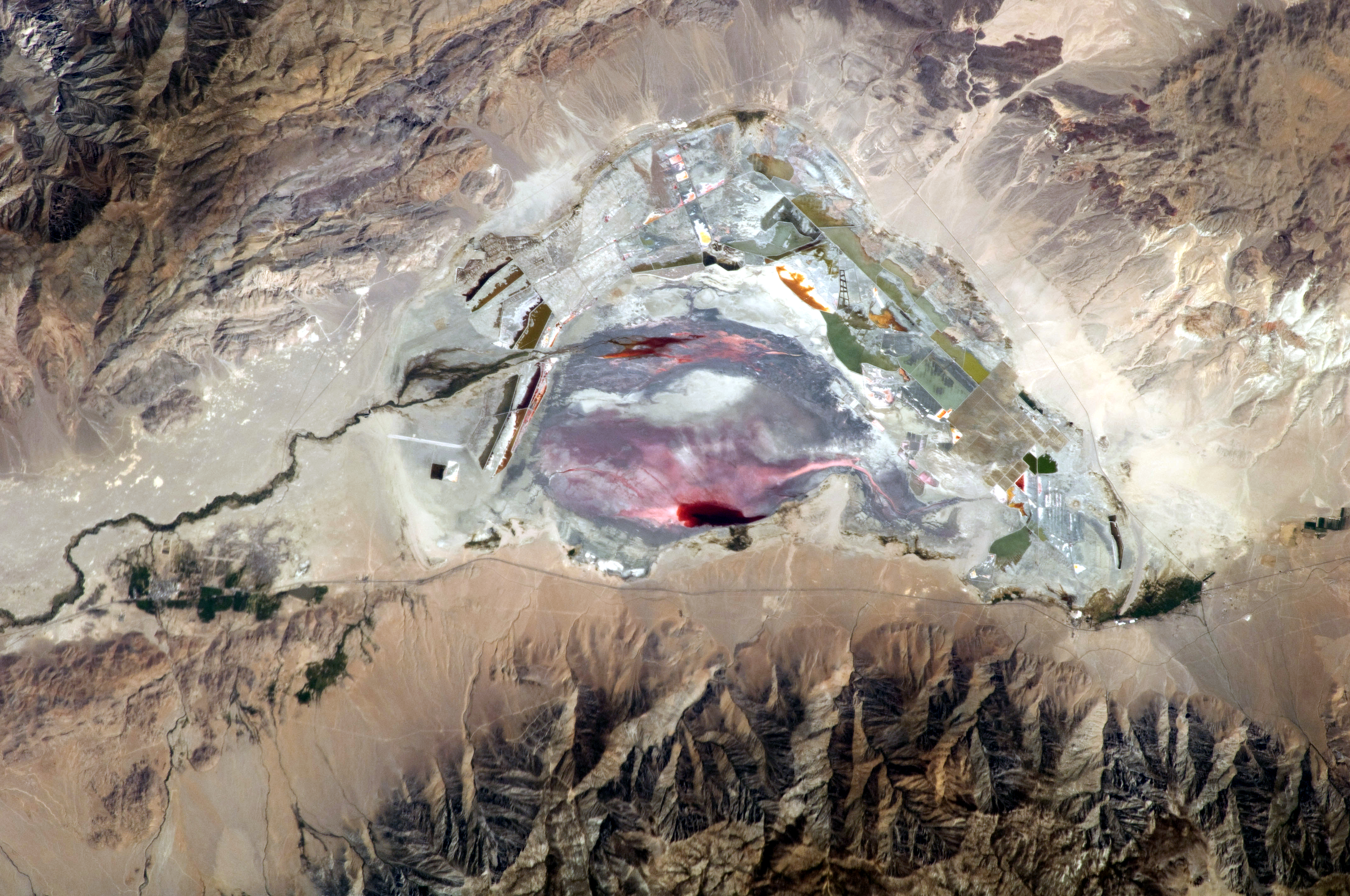 This astronaut photograph highlights the mostly dry bed of Owens Lake, located in the Owens River Valley between the Inyo Mountains and the Sierra Nevada. Shallow groundwater, springs, and seeps support minor wetlands and a central brine pool. Two bright red areas along the margins of the brine pool indicate the presence of halophilic (salt-loving) organisms known as archaeans. Gray and white materials within the lake bed are exposed sediments and salt crusts. The nearby towns of Olancha and Lone Pine are marked by the presence of green vegetation, indicating a more constant availability of water.